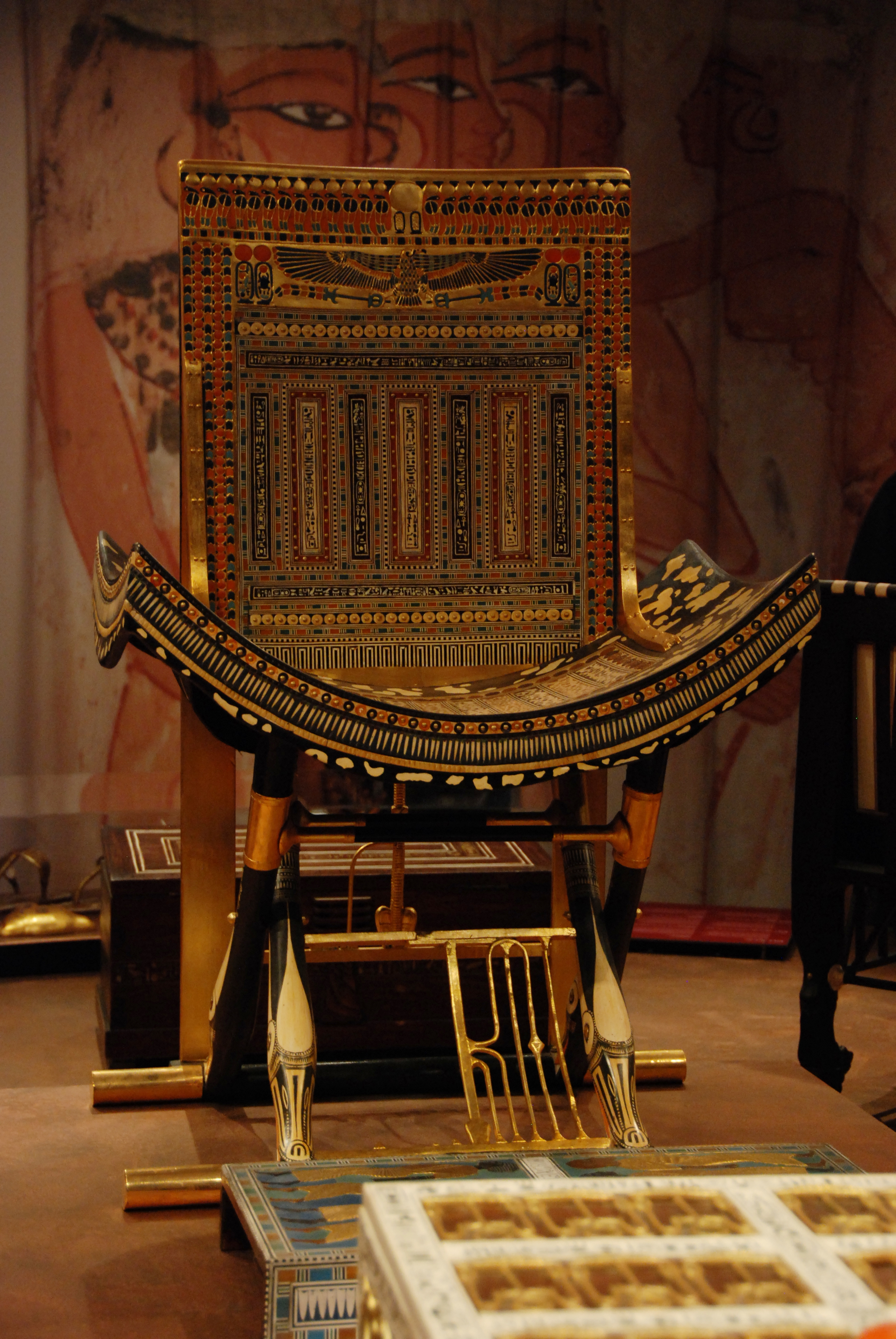 Throne from tomb of Tutankhamun